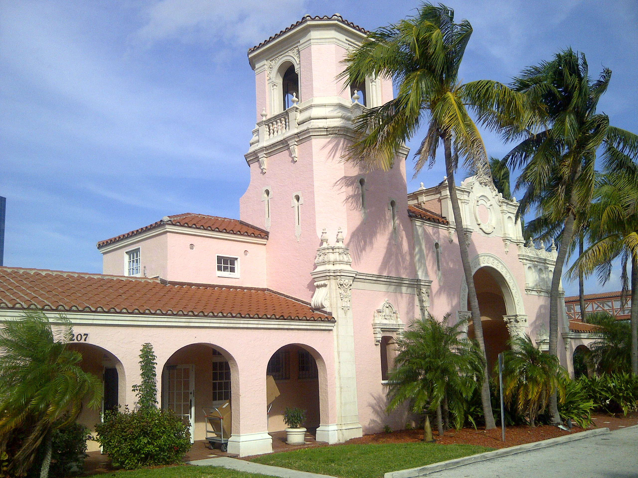 Close up of West Palm Beach Seaboard Air Line Railway (now Amtrak) station